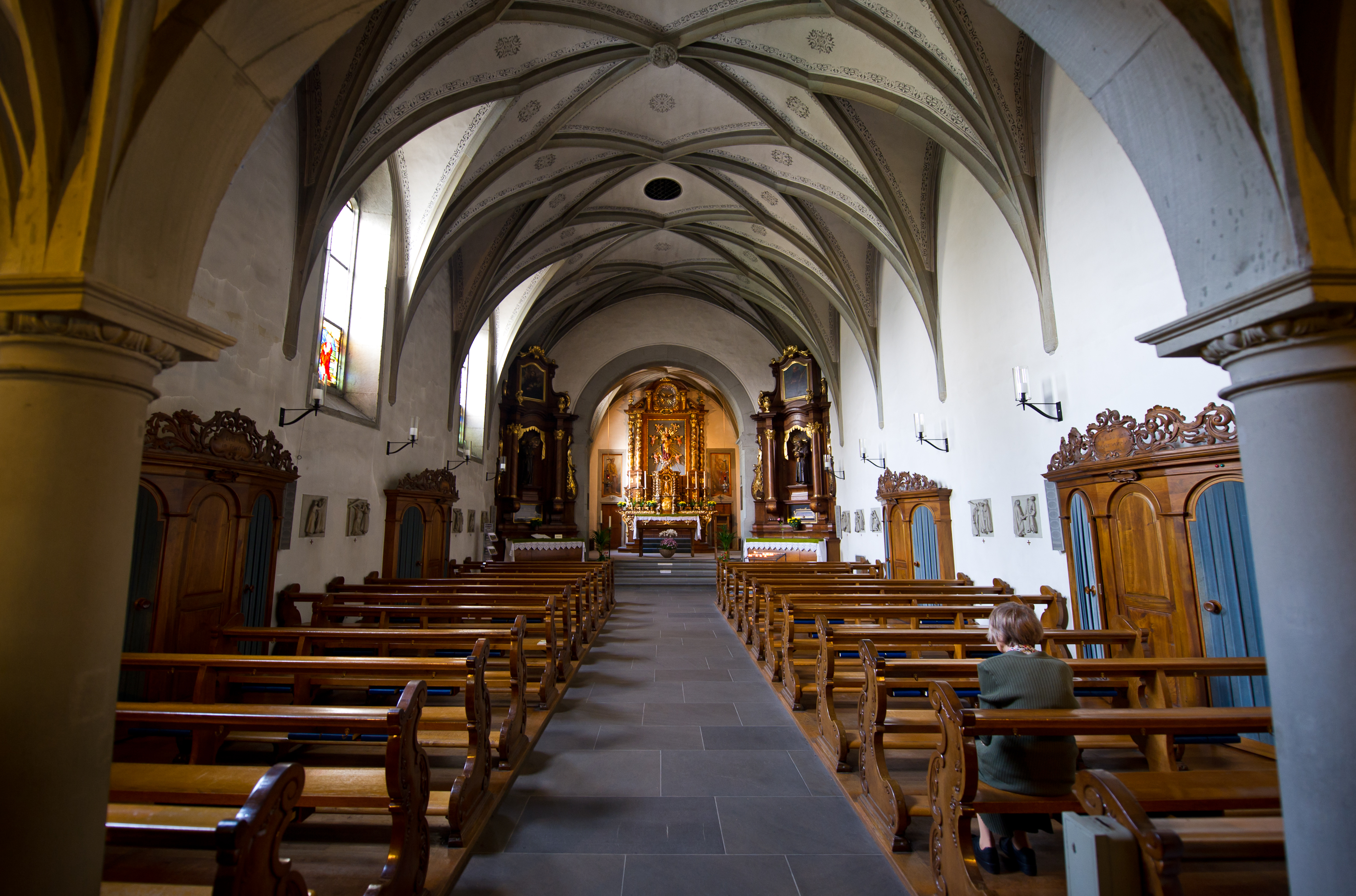 Capuchin monastery, Lucerne, LU, Switzerland.